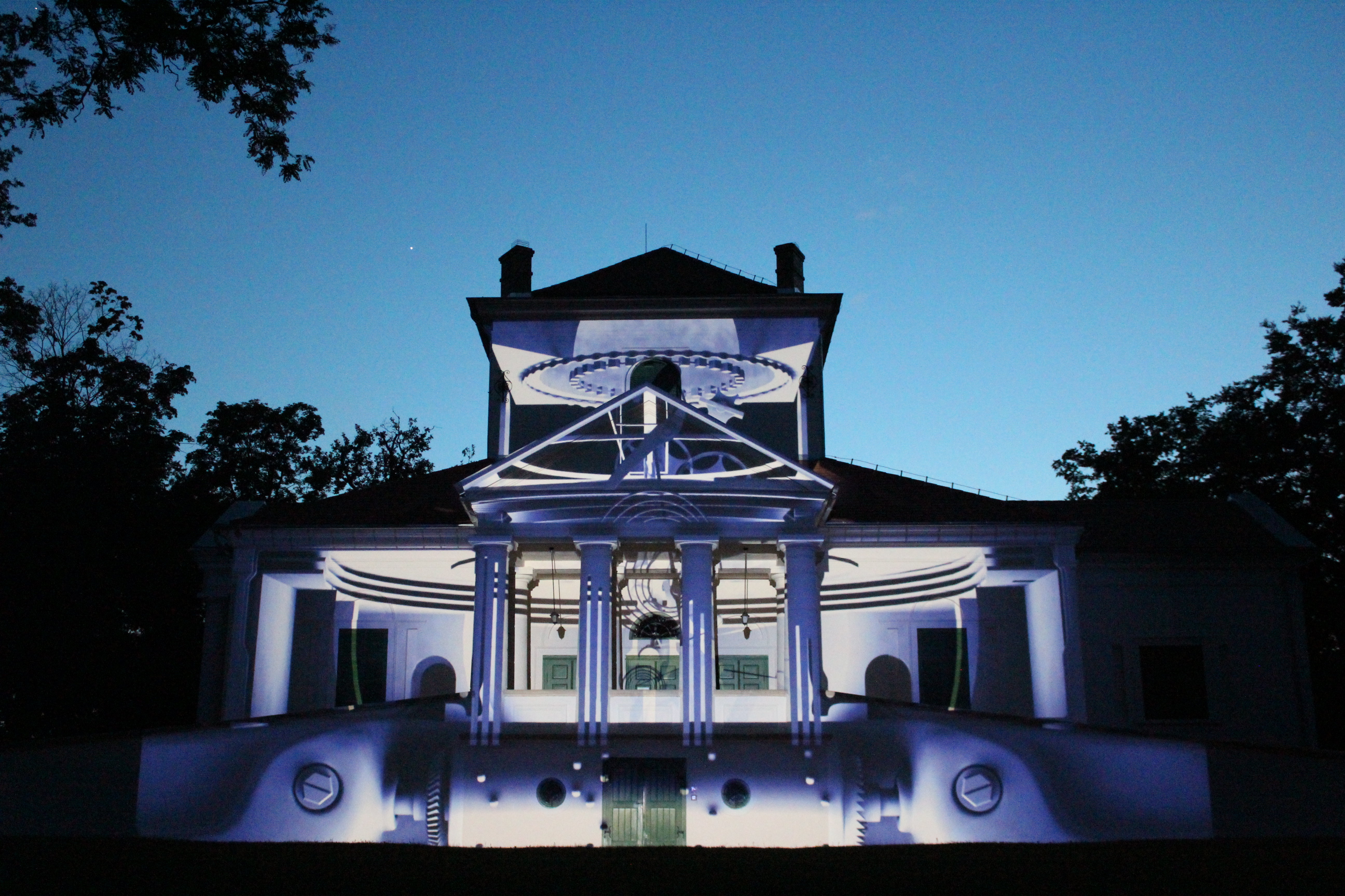 Projection mapping in Vásárhelyi-Bréda mansion (Lőkösháza, Hungary)